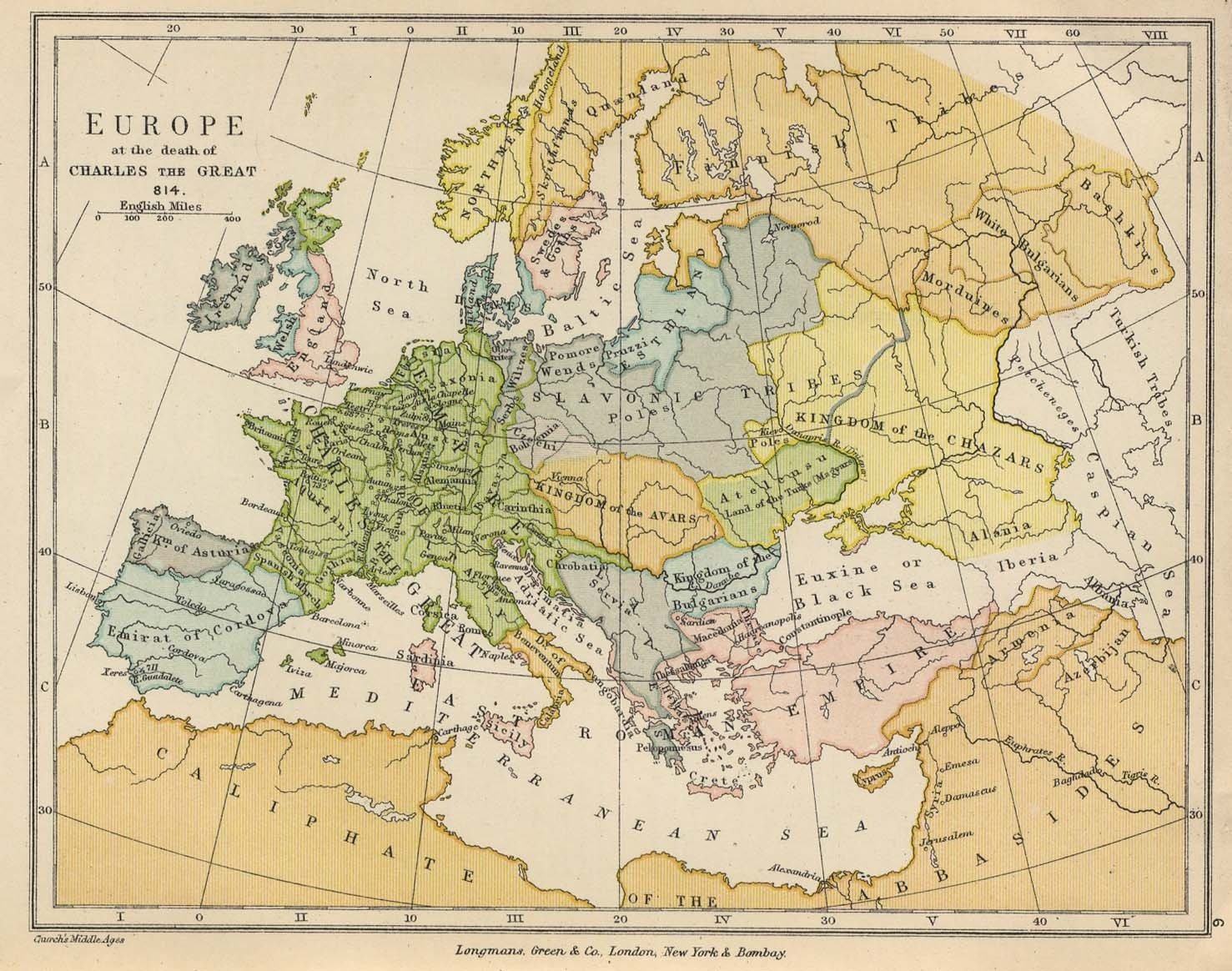 Europe in 814